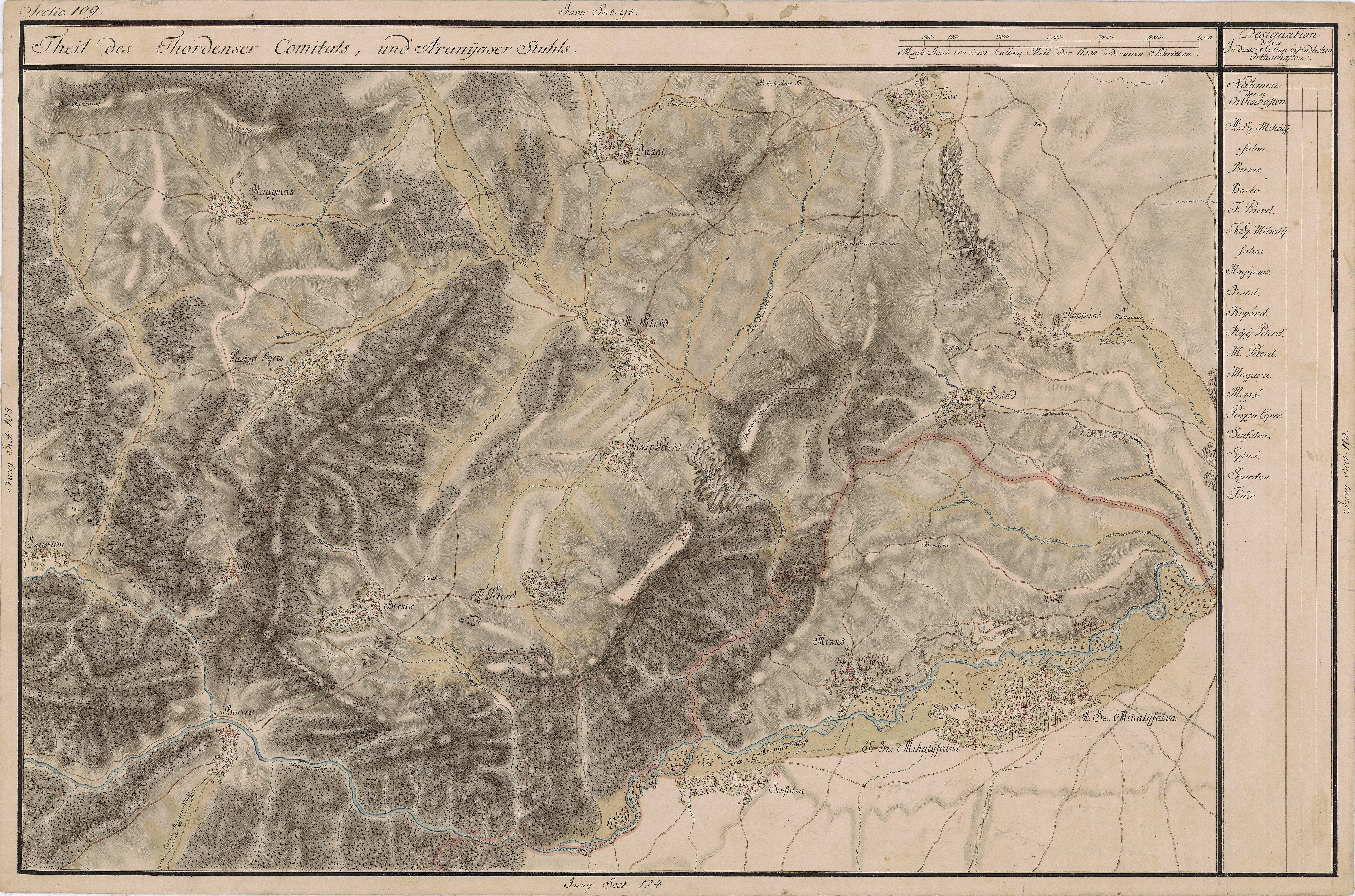 Grand Duchy of Transylvania, 1769-1773. Josephinische Landaufnahme pg.109Română: Harta Iosefină a Transilvaniei, 1769-1773. Josephinische Landaufnahme pg.109